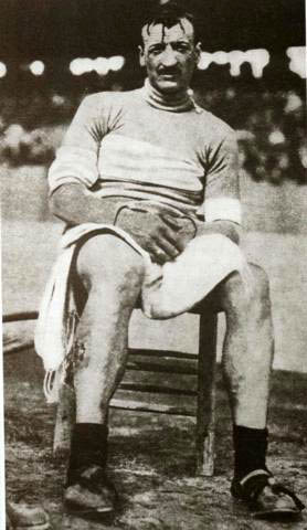 Luigi Ganna sitting after the 1909 Giro